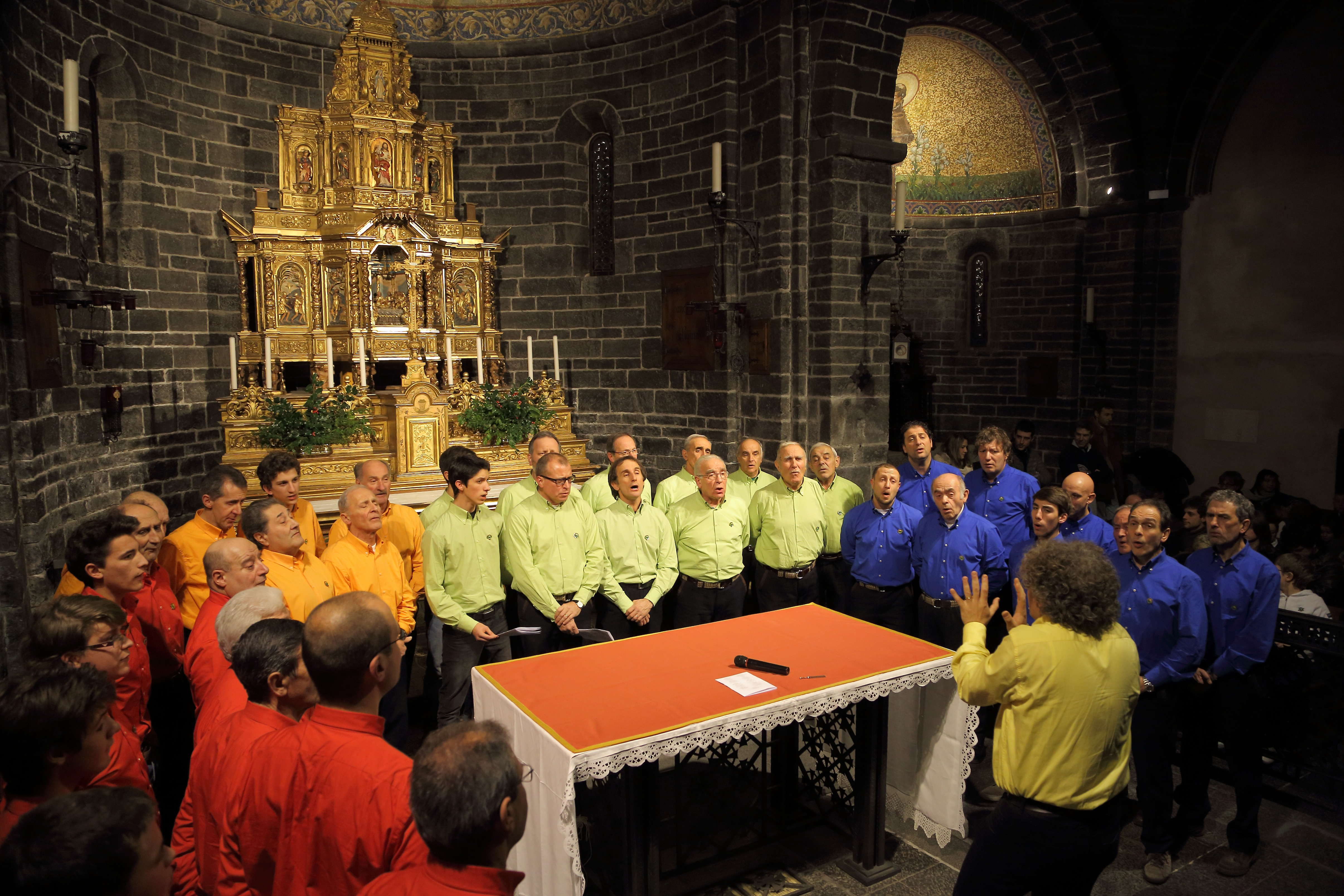 Corale Bilacus - Concerto di Natale 2014